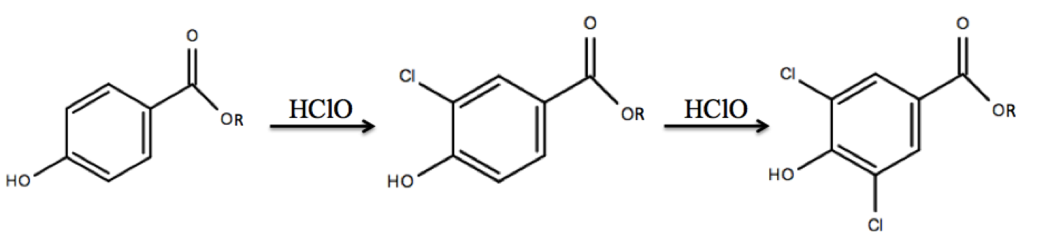 Reaction of a general paraben with hypochlorous acid (HClO) to form mono- and di- chlorinated products.